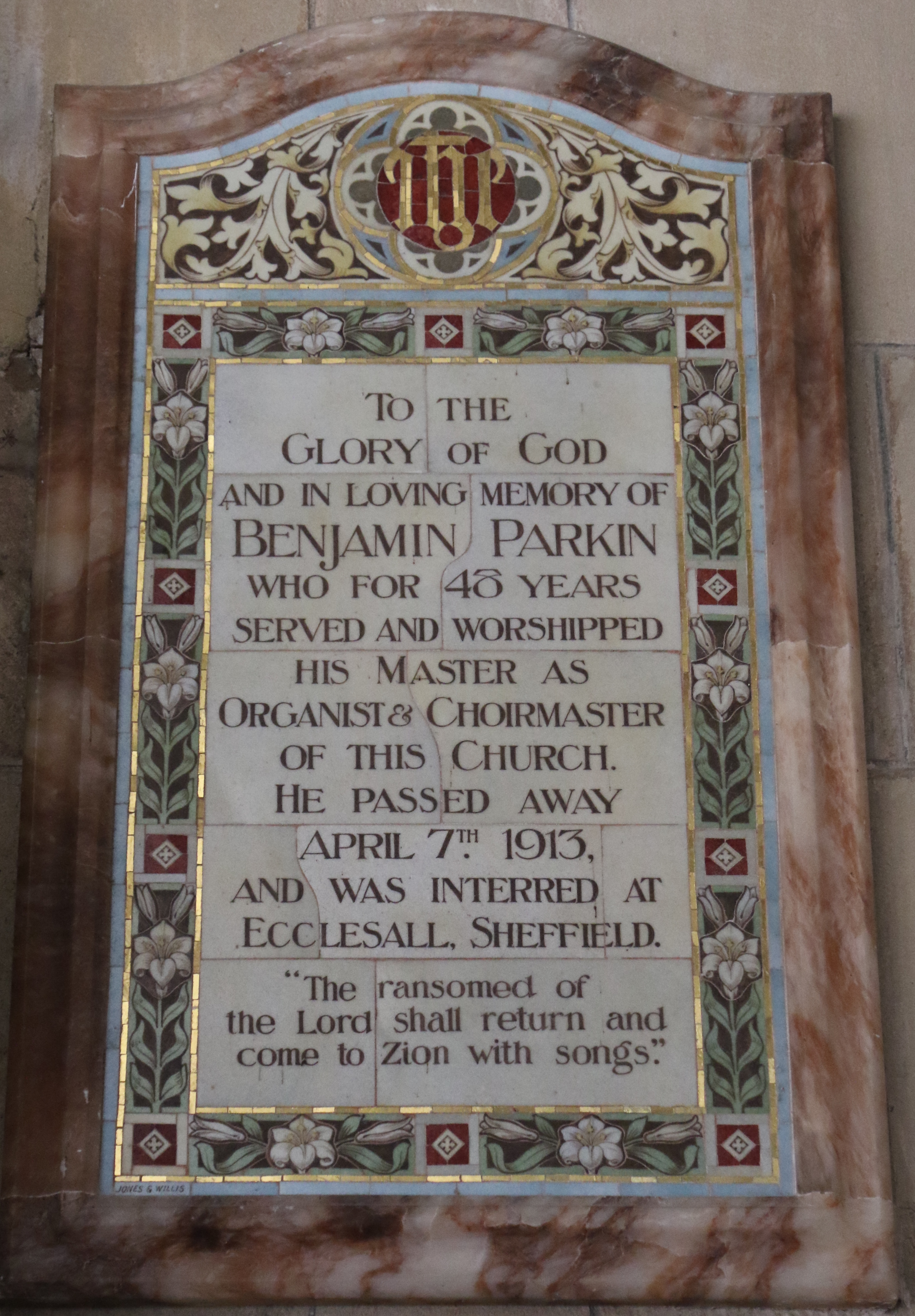 Benjamin Parkin, who for 48 years served and worshipped his master as Organist and Choirmaster of this church. He passed away April 7th, 1913, and was interred at Ecclesall, Sheffield.